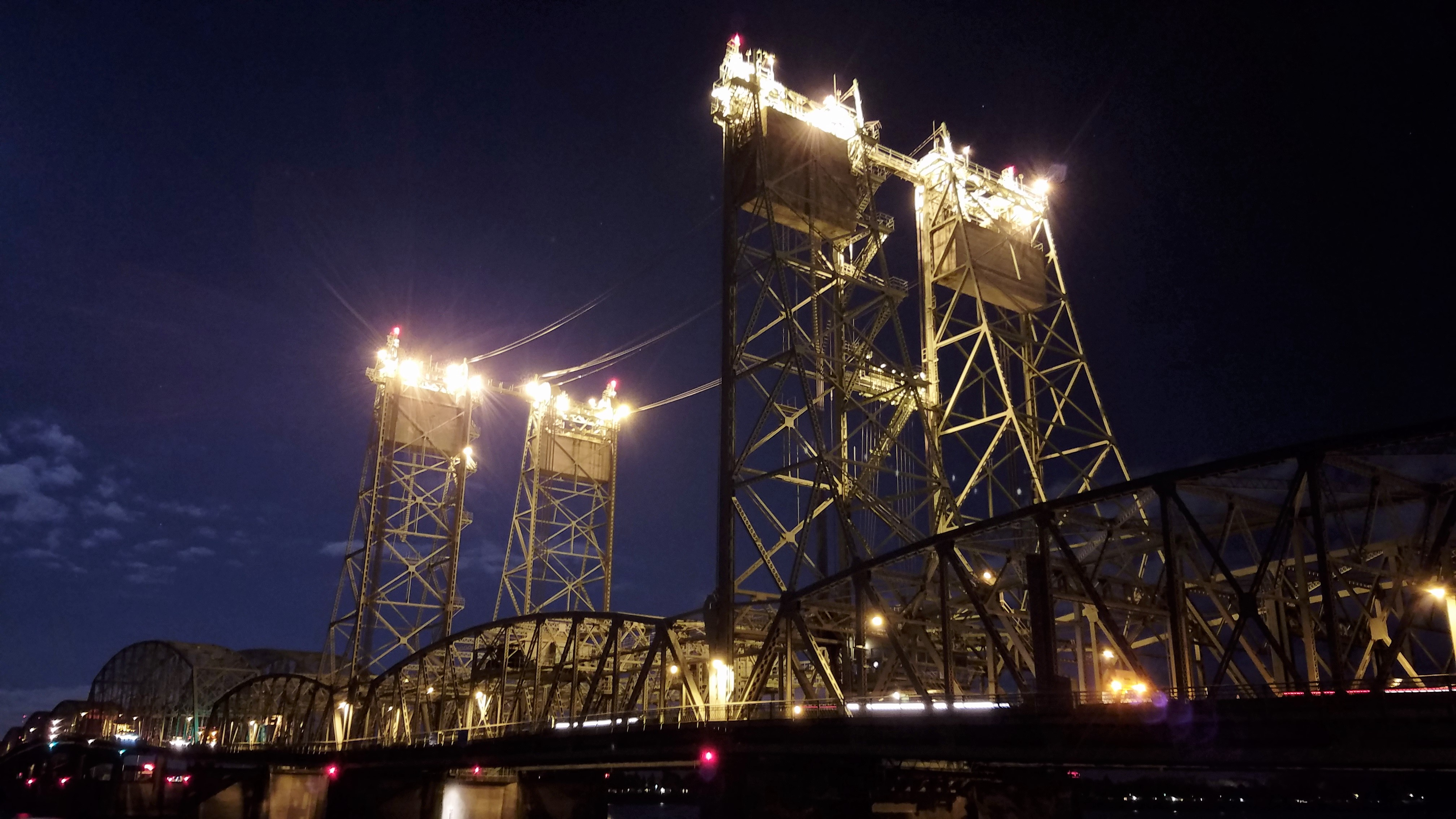 Work crews early in the morning on July 20th were making repairs to various lift systems and had the Interstate Bridge's overhead work lights engaged. A rare sight to see the bridge so illuminated.